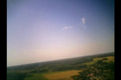 A photo taken with the flycamone the hyperon rocket from water rocket team db Rockets. a very nice view of Neerrepen in Tongeren.